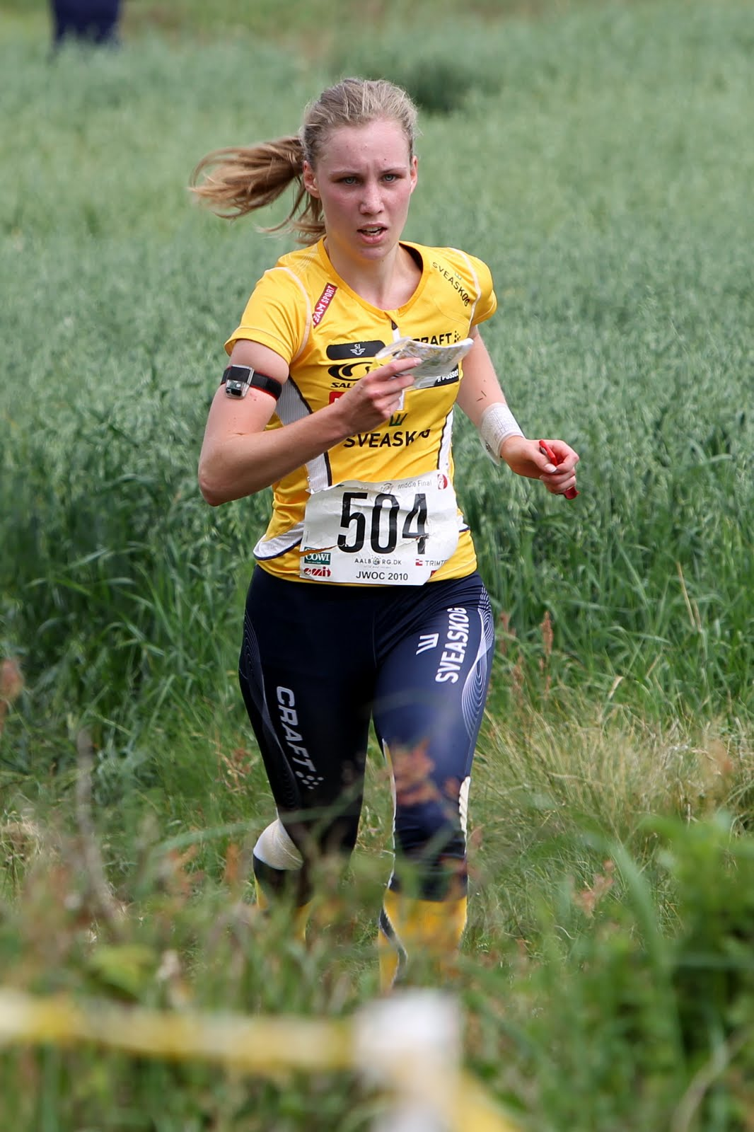 Therese Klintberg (SWE) Junior Orienteering Championships 2010